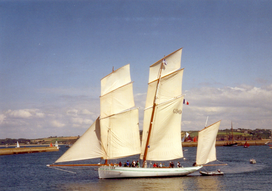 traditional sailboat La gravillaise